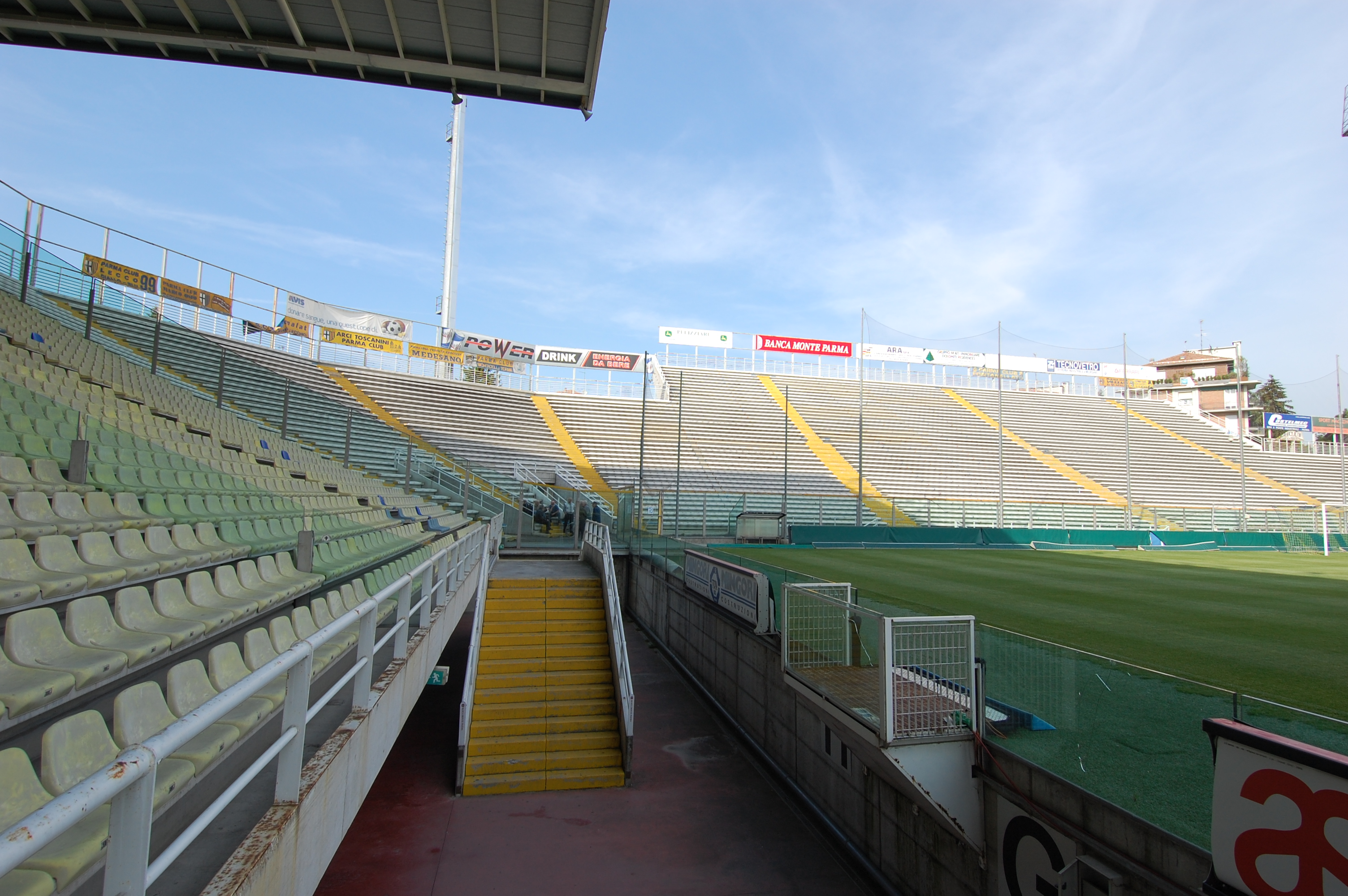 Stadio Ennio Tardini